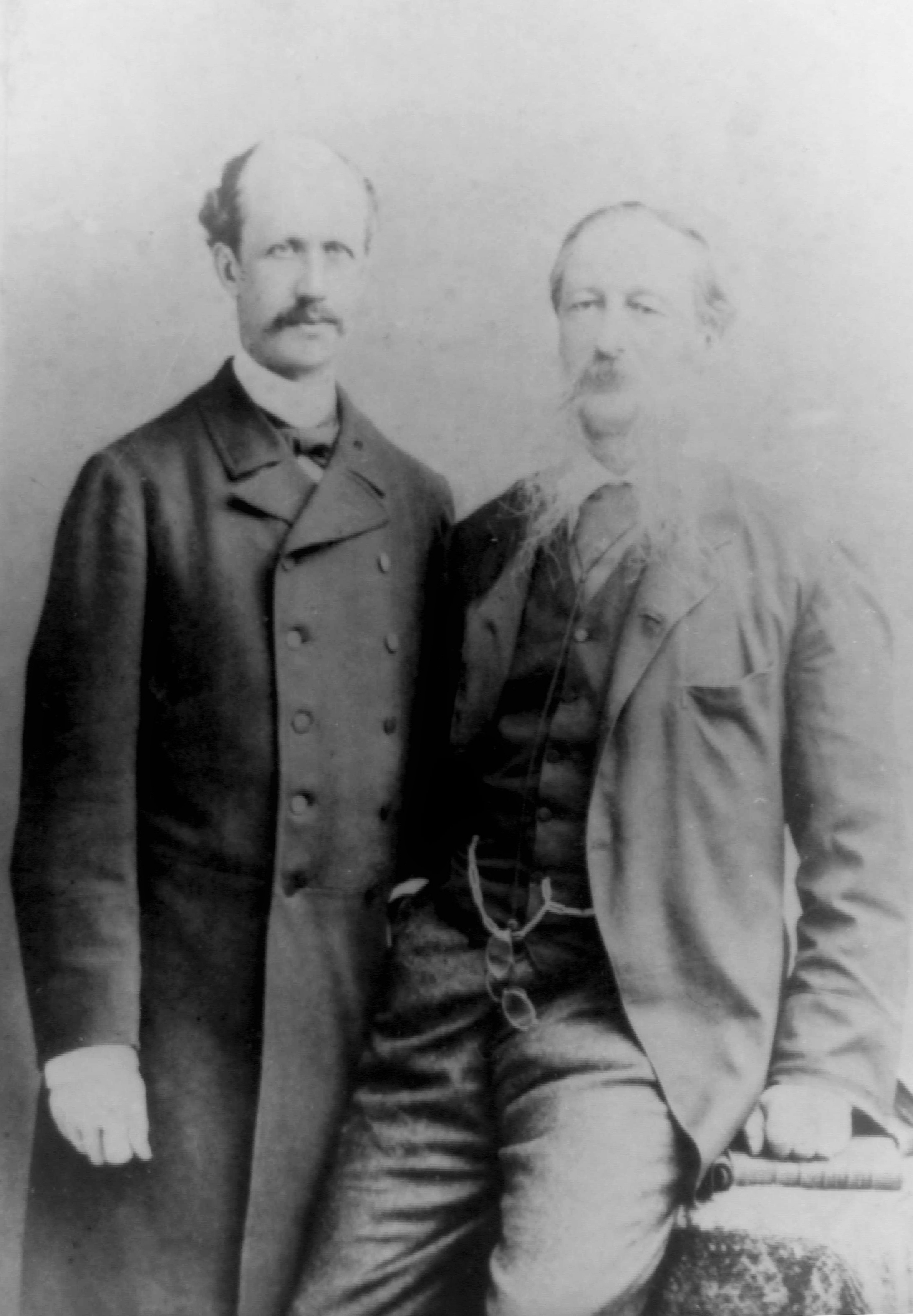 Modest Korf (1842 - 1933?) and Vasily Pashkov (1831 - 1902) - leaders of the Evangelical movement in the Russian Empire